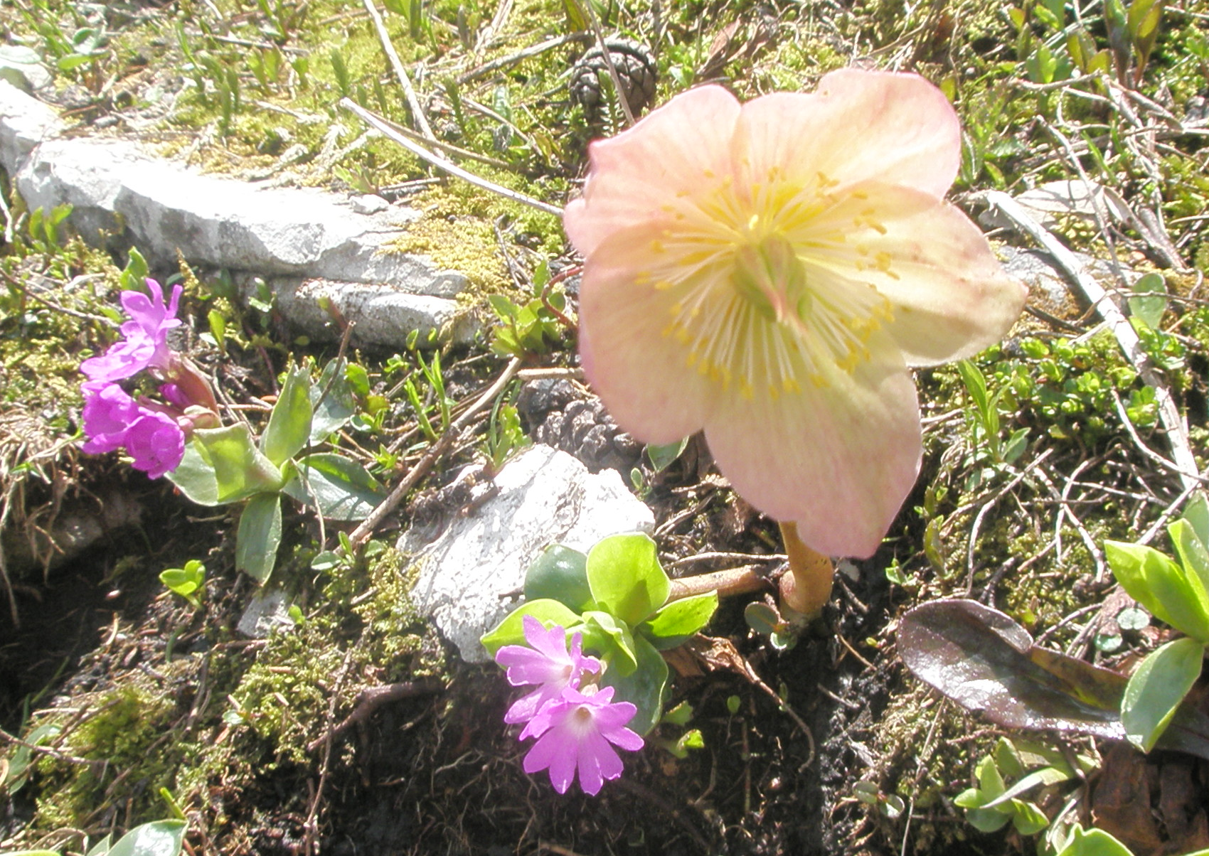 Eine Schneerose am Hochkar